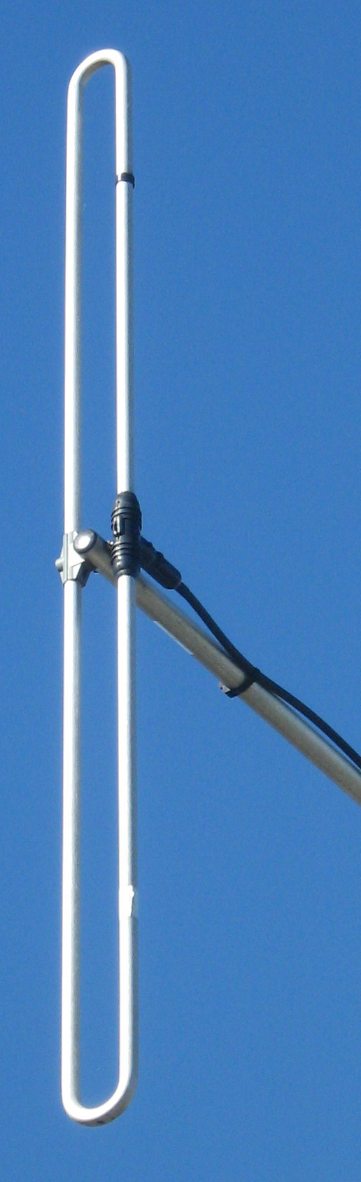 A VHF folded dipole antenna